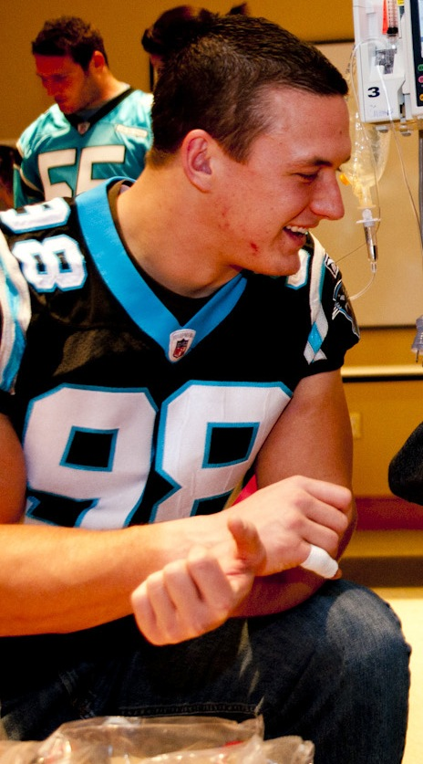 homas Keiser, defensive end for the Carolina Panthers, and Lt. Col. Gerald Ostlund, public affairs officer for the U.S. Army Civil Affairs & Psychological Operations Command (Airborne), talk with a child of the Levine Children's Hospital in Charlotte, N.C.